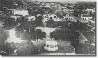 Presidente Prudente, São Paulo, Brazil, at 1930.